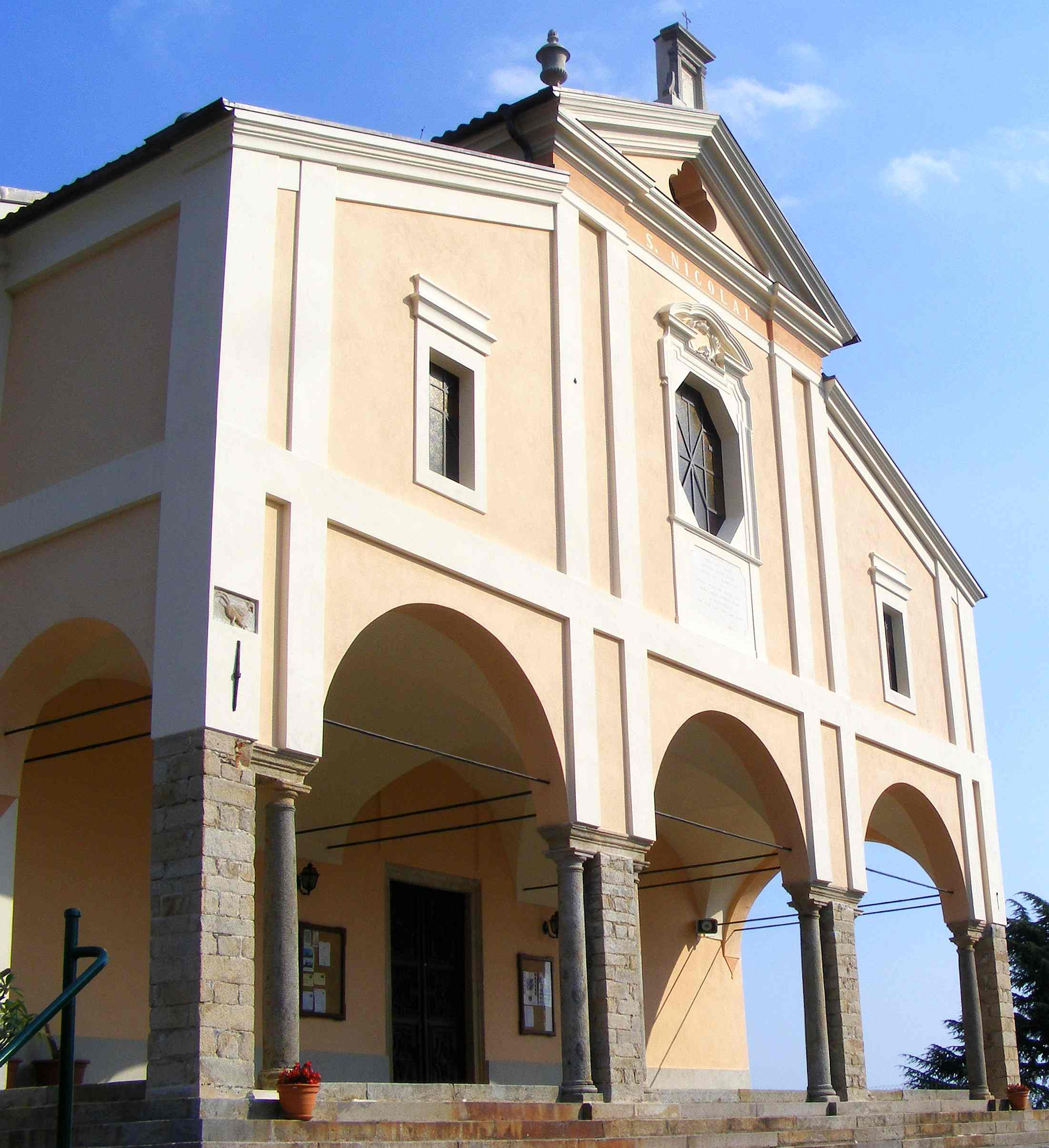 Valle San Nicolao (BI, Italy): Saint Nicola's church